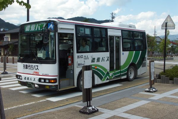 Bustitution for Takayama Main Line, departing Hida-Furukawa Station (Furukawa-cho, Hida, Gifu, Japan) for Inotani Station